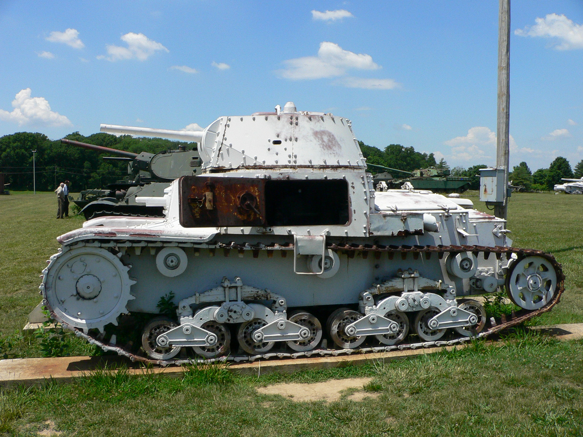 Picture taken by myself, Mark Pellegrini, at the United States Army Ordnance Museum (Aberdeen Proving Ground, MD) on June 12, 2007.